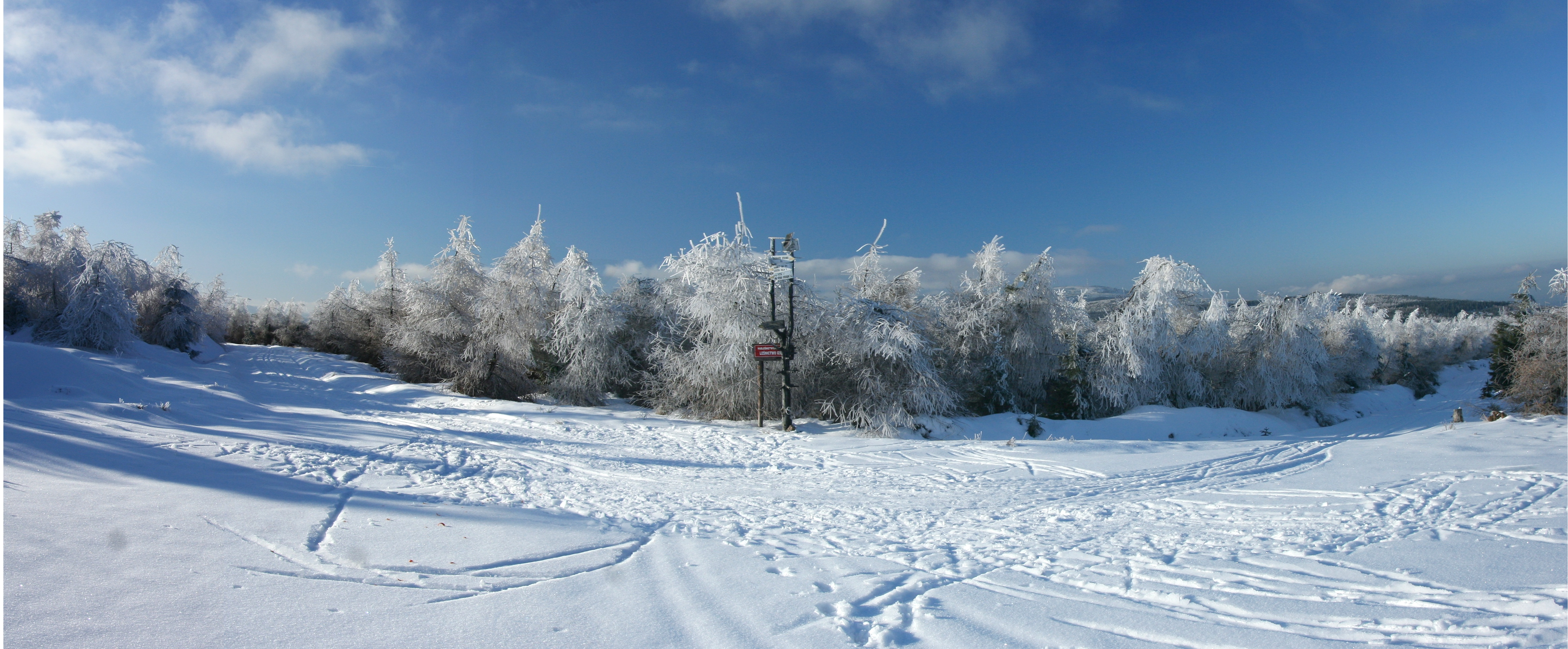 Rozdroze pod Kopa Jizera Mountains, Poland